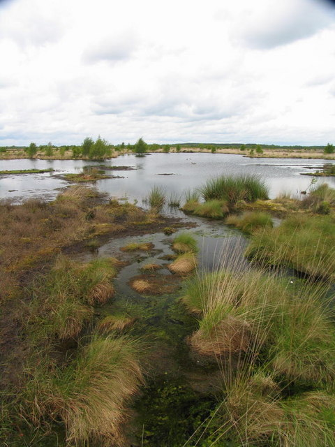 Whixall Moss. Whixall Moss is part of the third largest, and most southerly, raised bog in Britain. A former peat cutting area, being restored to its natural state since 1991, and now recognised as a "Wetland of International Importance". Surprising wilderness area of far horizons and big skies. Lots of wildlife and fascinating human as well as natural history throughout the area.